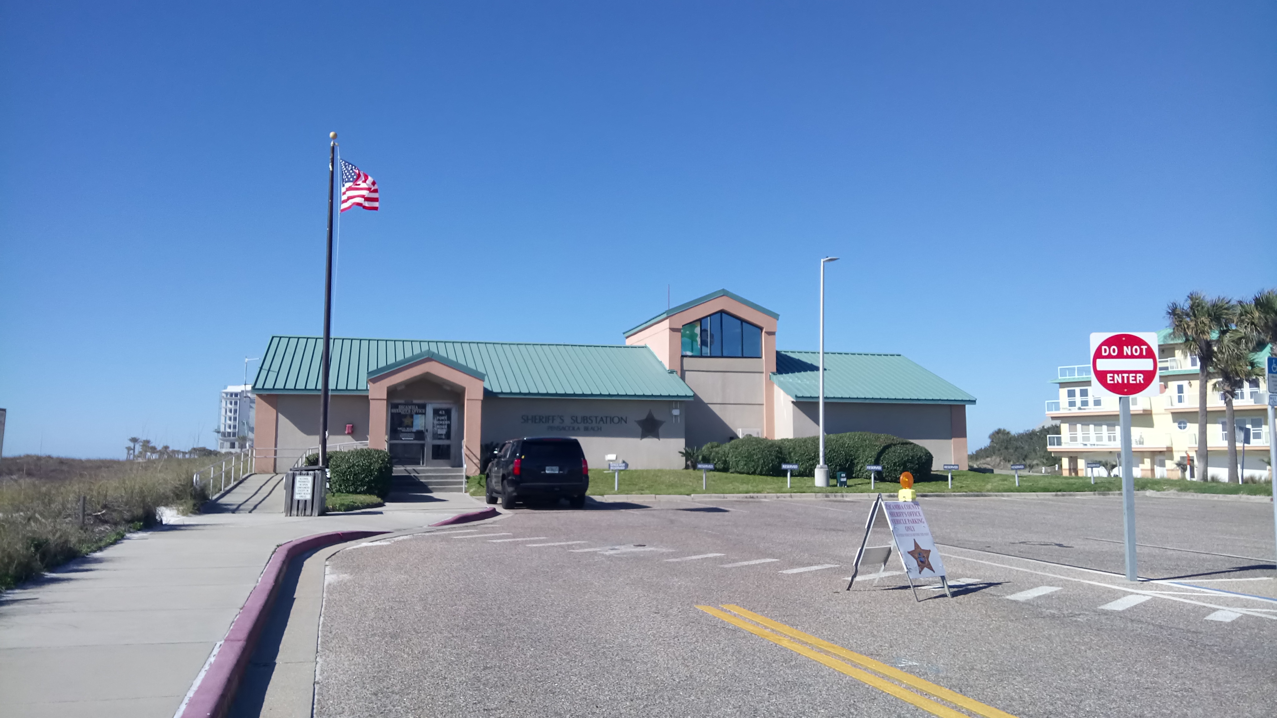 Pensscola Beach Sheriff Substation